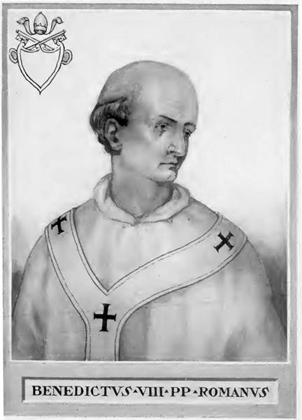 This illustration is from The Lives and Times of the Popes by Chevalier Artaud de Montor, New York: The Catholic Publication Society of America, 1911. It was originally published in 1842.